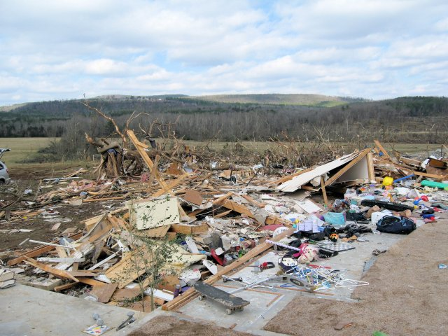 February 5, 2008 photo of tornado damage in Clinton, Arkansas, where the winds were strong enough to rip this house of its foundation.